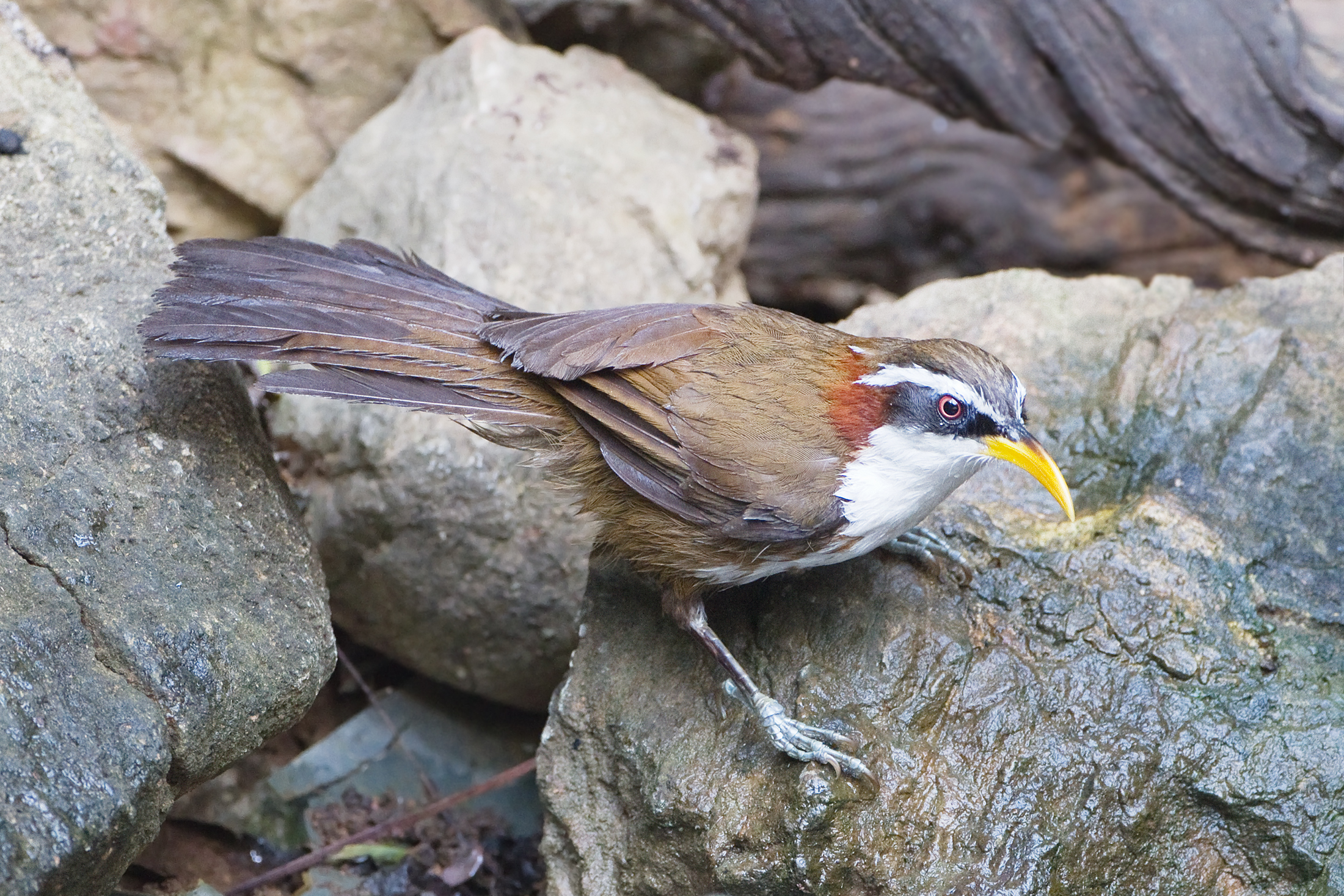 White-browed Scimitar-babbler (Pomatorhinus schisticeps), Song Phi Nong, Kaeng Krachan, Phetchaburi, Thailand